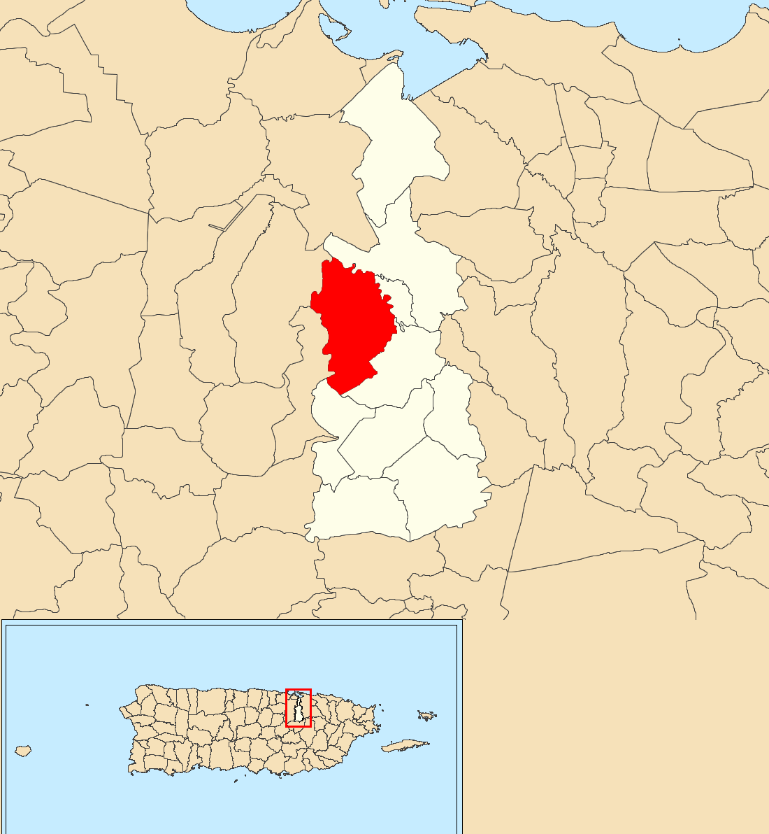 Santa Rosa, Guaynabo, Puerto Rico locator map